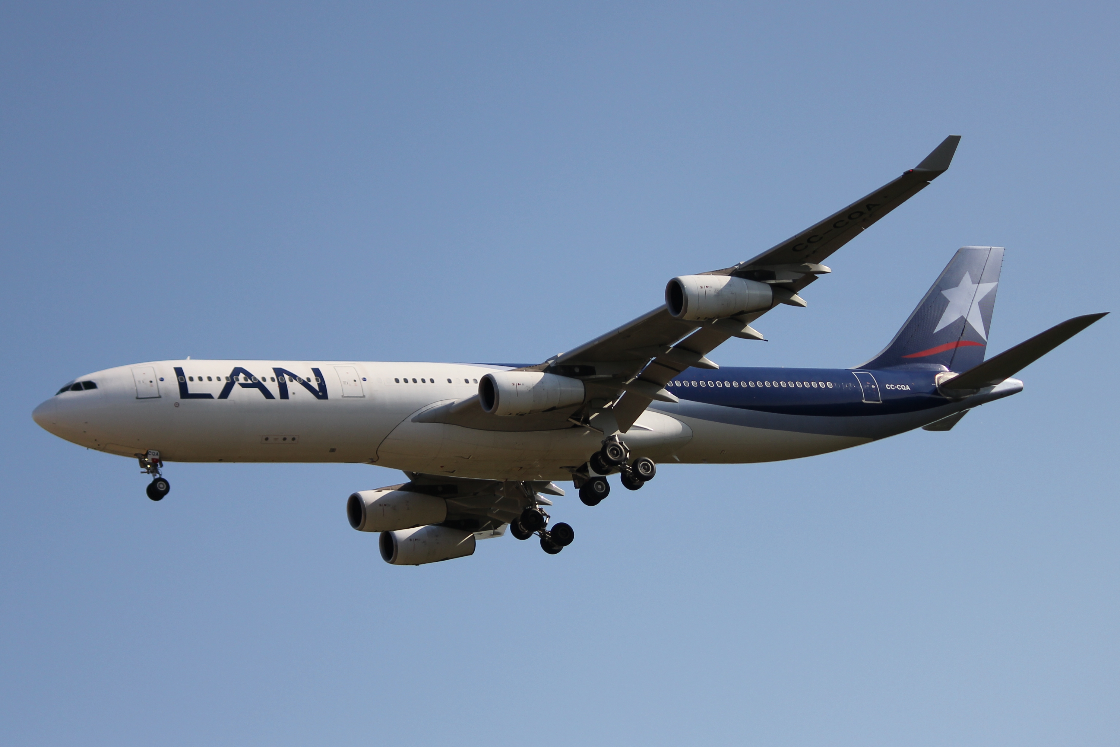 A A340-300 of LAN Chile landing at Frankfurt Airport